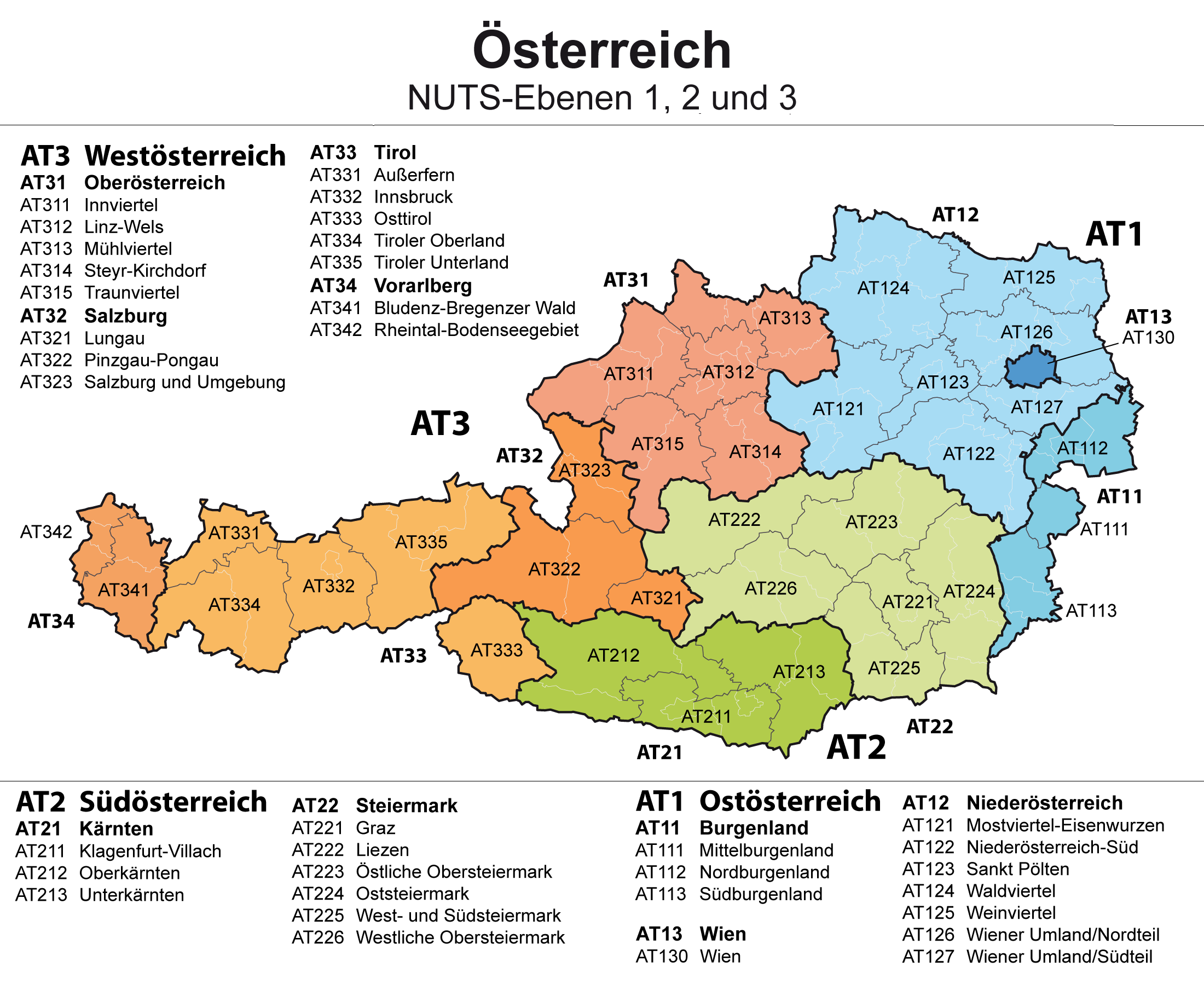 Map of Austria: NUTS regions on level NUTS1, NUTS2 and NUTS3